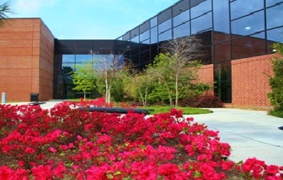 Leyton college is one of the best college in Europe